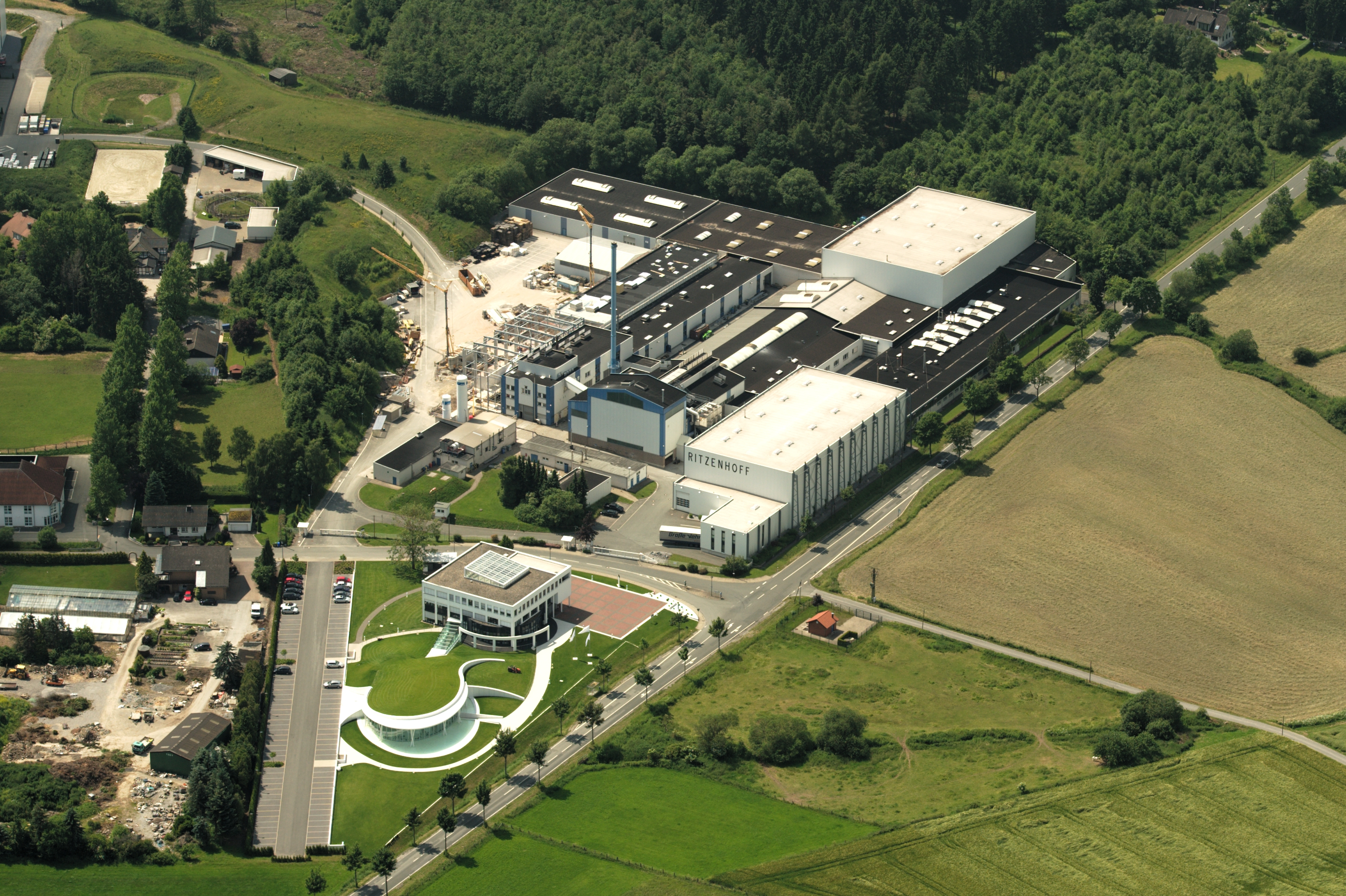 Fotoflug Sauerland-Ost – Ritzenhoff AG in Marsberg The making of this document was supported by the Community-Budget of Wikimedia Germany.